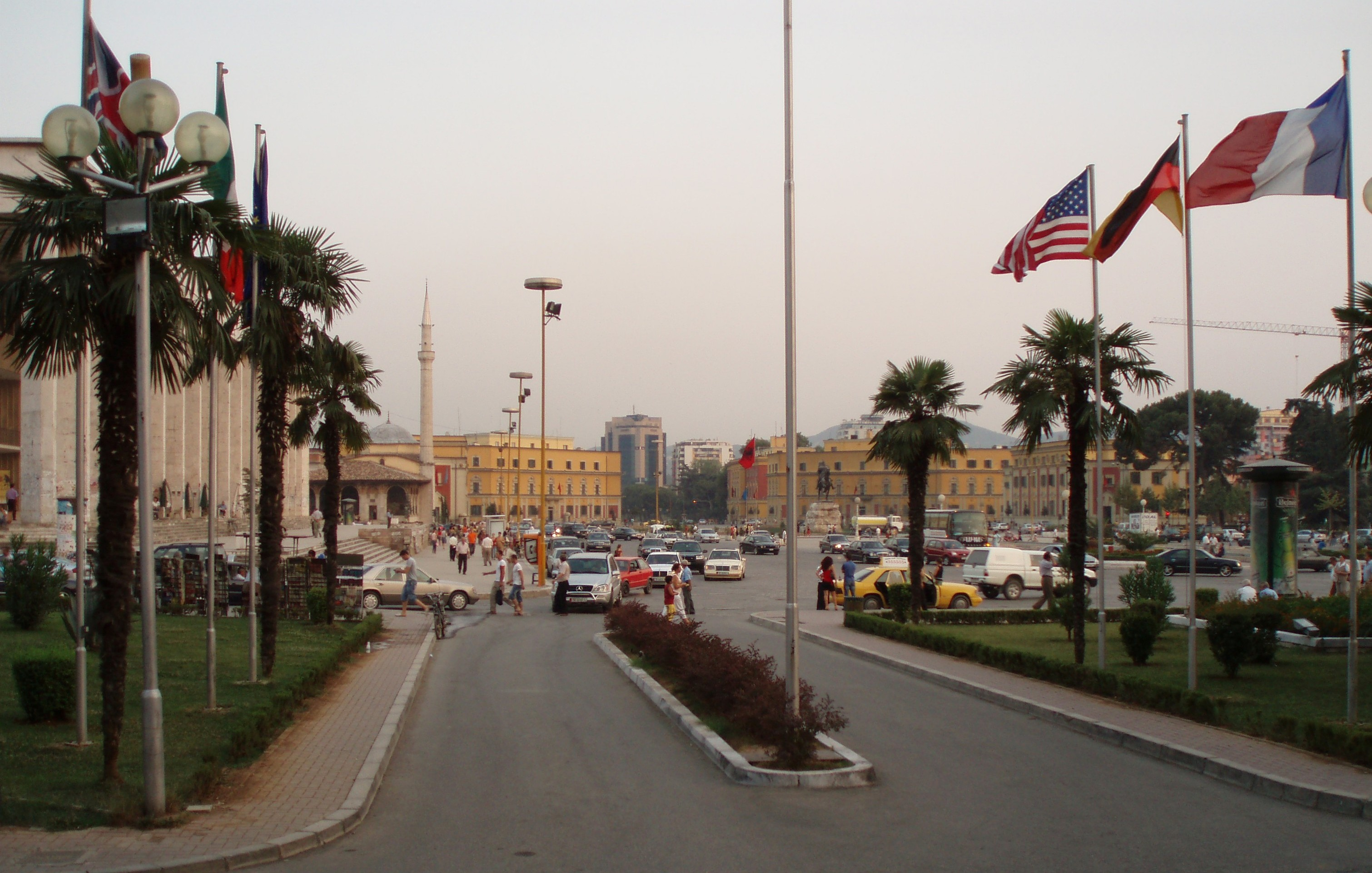 Skanderbeg Square in Tirana, Albania. The square is seen from Tirana International Hotel.